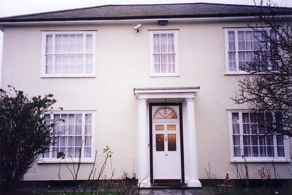 Hill House, Loose, front elevation. Mary Ann's house as it is today. A fire destroyed the top floor.